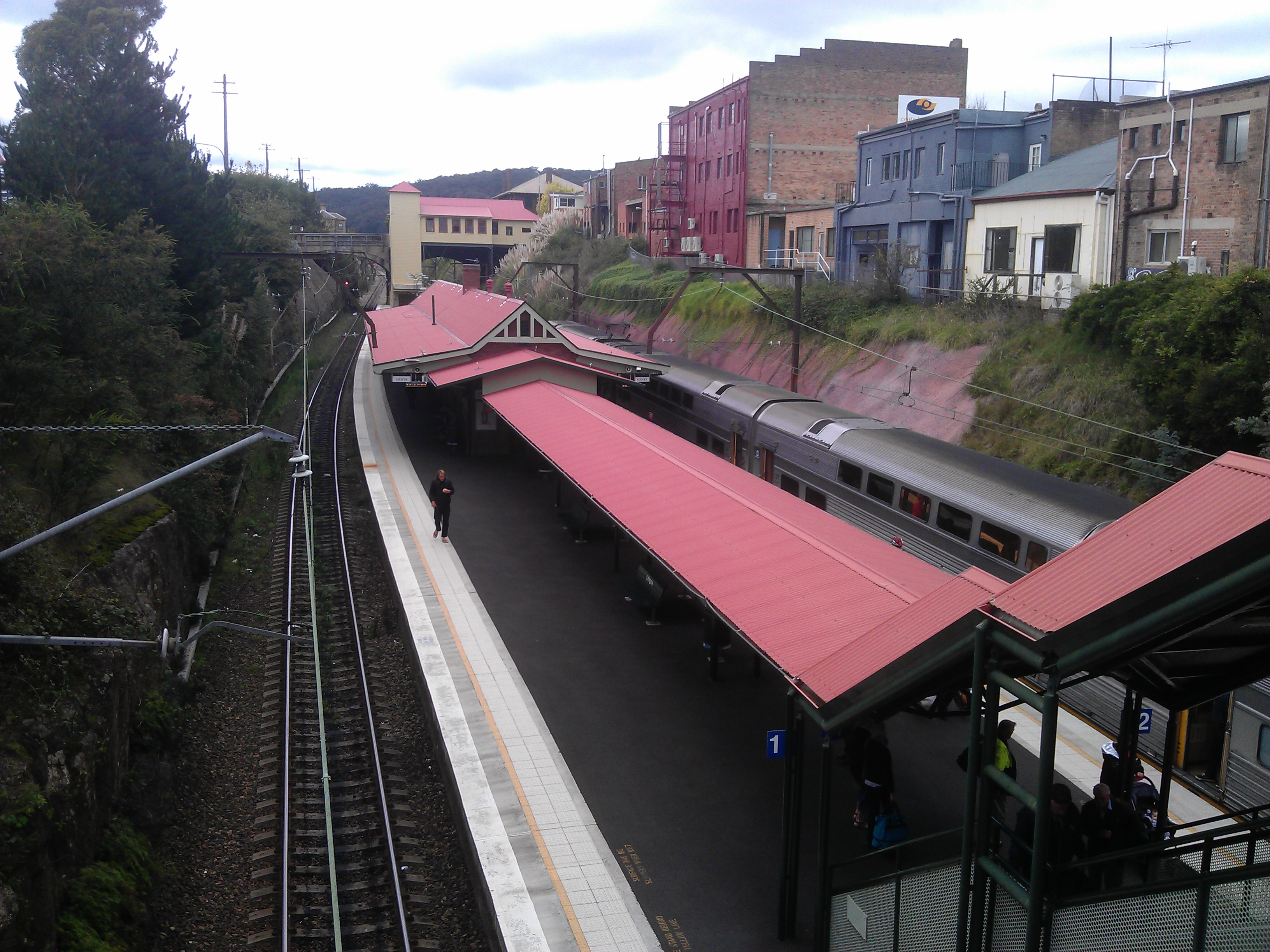 Lithgow railway station